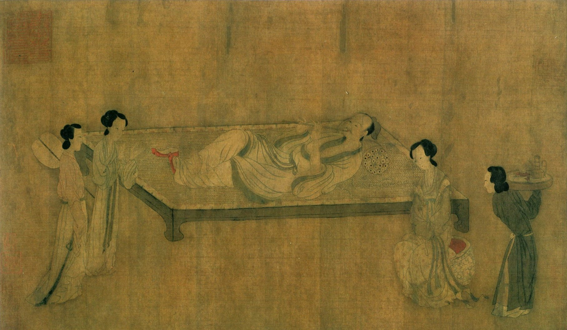 Zhang Xuan (attributed) Emperor Minghuang Playing a Flute. Album leaf. Palace Museum, Taipei. Late copy of early composition.